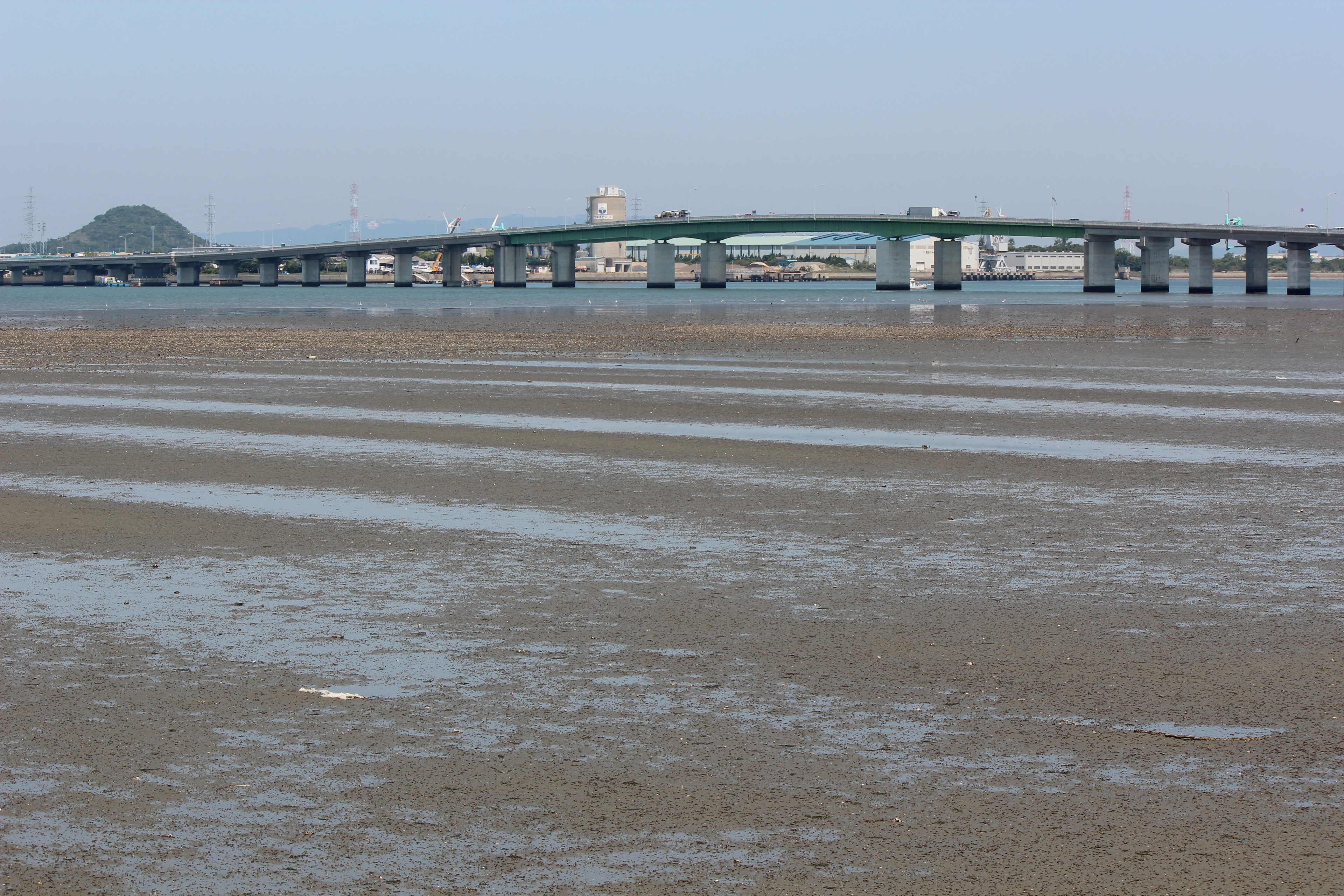 The Mikawako Bridge (Mikawako Ohashi) seen from Shiokawa Tidal Flat (Shiokawa Higata) in Aichi Prefecture, Japan